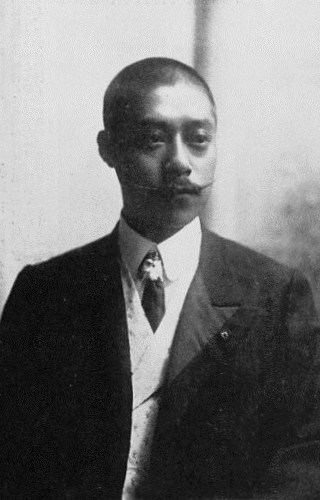 Tadaoki Sakai